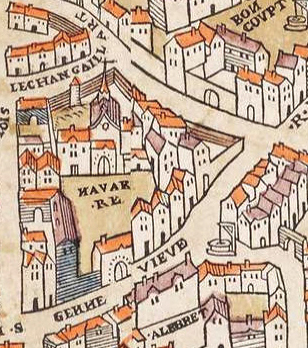 Collège de Navarre on the plan of Truschet and Hoyau (1550).